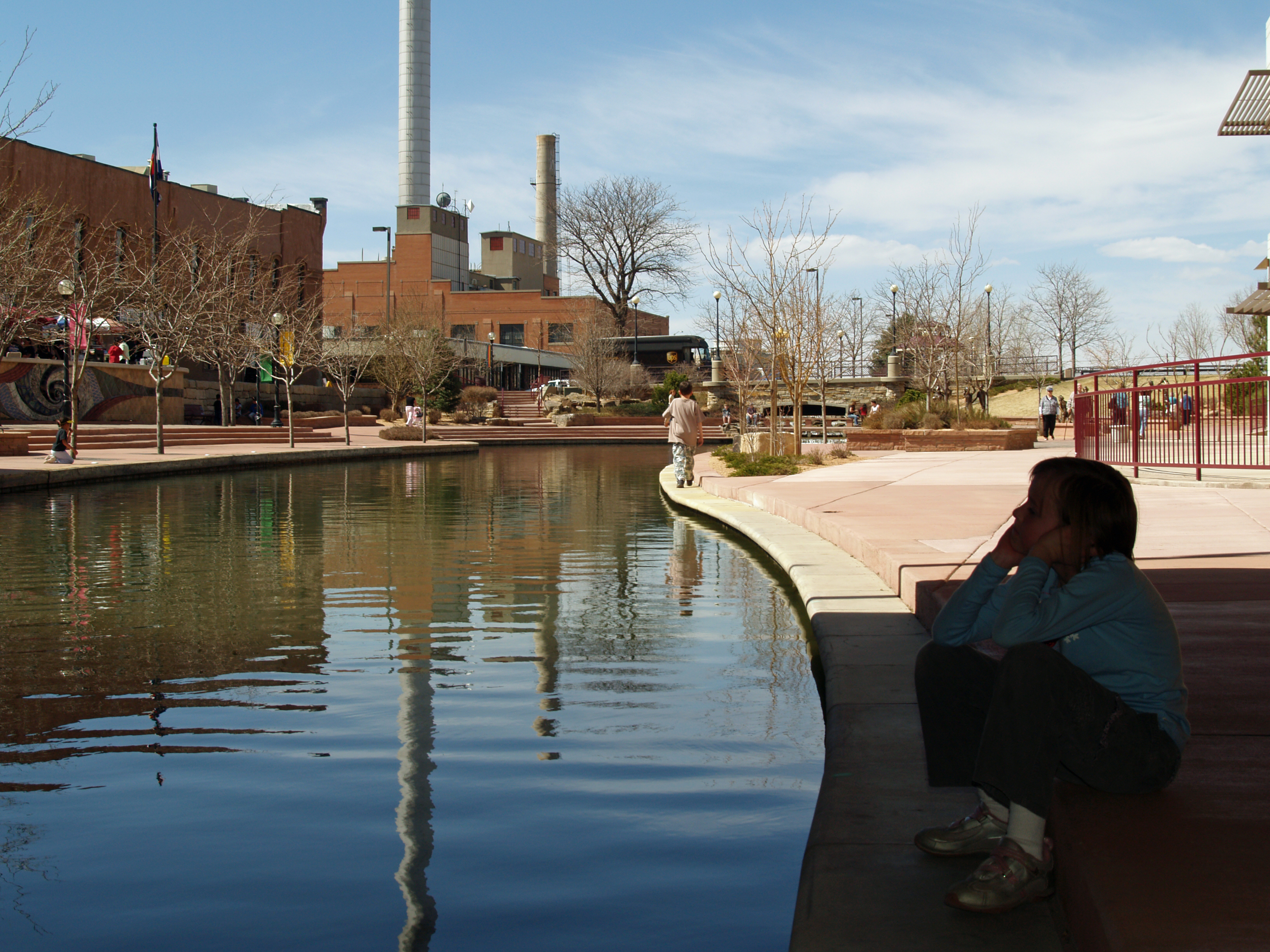 The river walk in downtown Pueblo, Colorado.